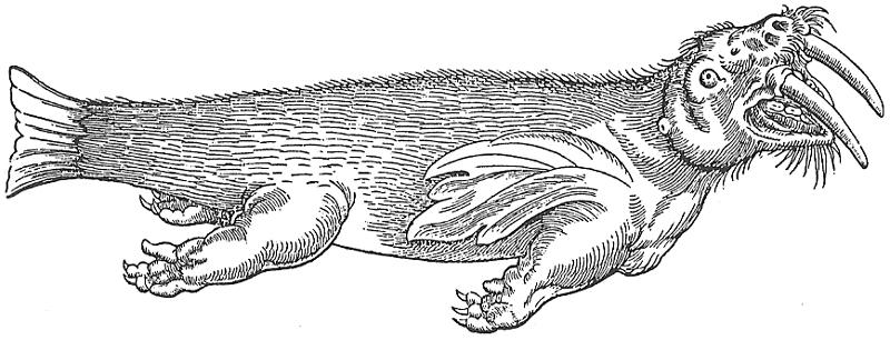 Atlantic Walrus sketch from Conrad Gesner